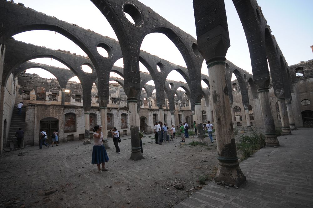 2009 Saint Giragos in Diyarbakir before the restoration.